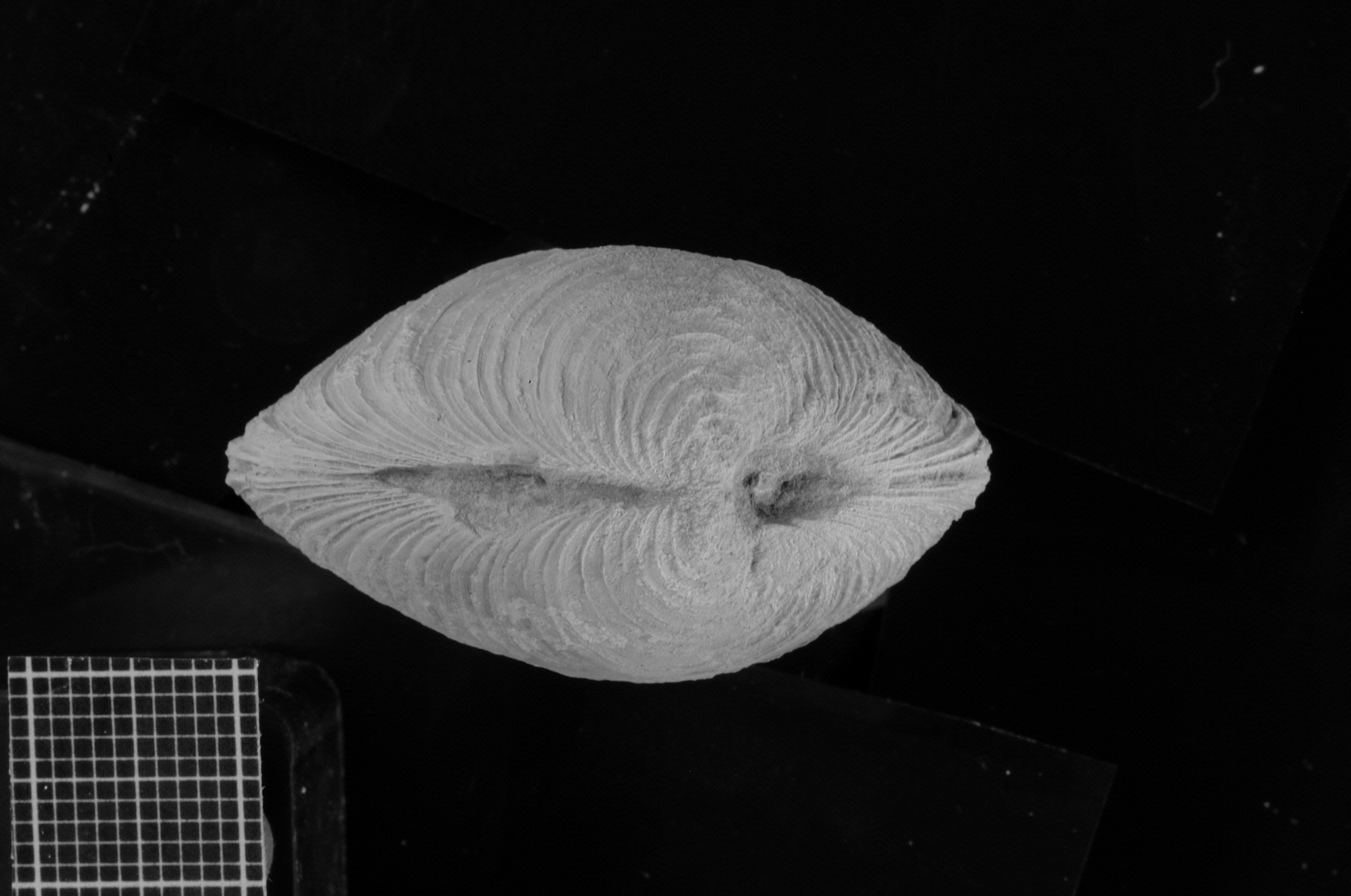 Specimen of the bivalve species Eriphyla argentina Burckhardt, 1903, dorsal view. Agua de la Mula Member of the Agrio Formation, Neuquén Basin. Neuquén Proovince, Argentina.